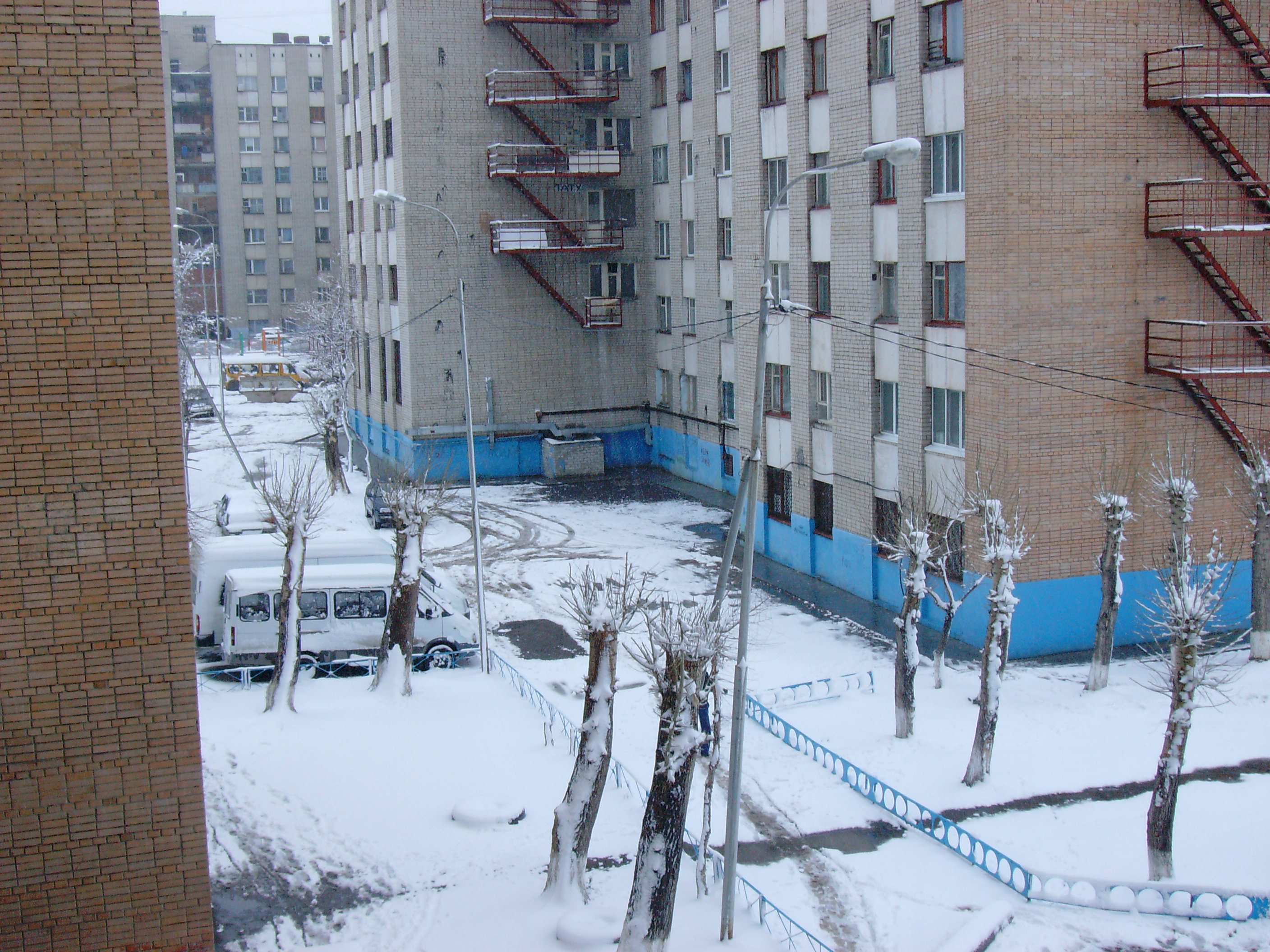 Slums at winter